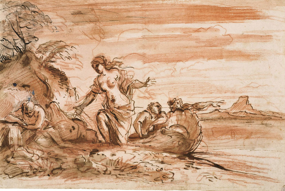 Venus Rescuing Aeneas by Pier Francesco Mola, c. late 1650s